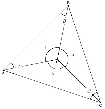 Demonstarion of Tiestra formula